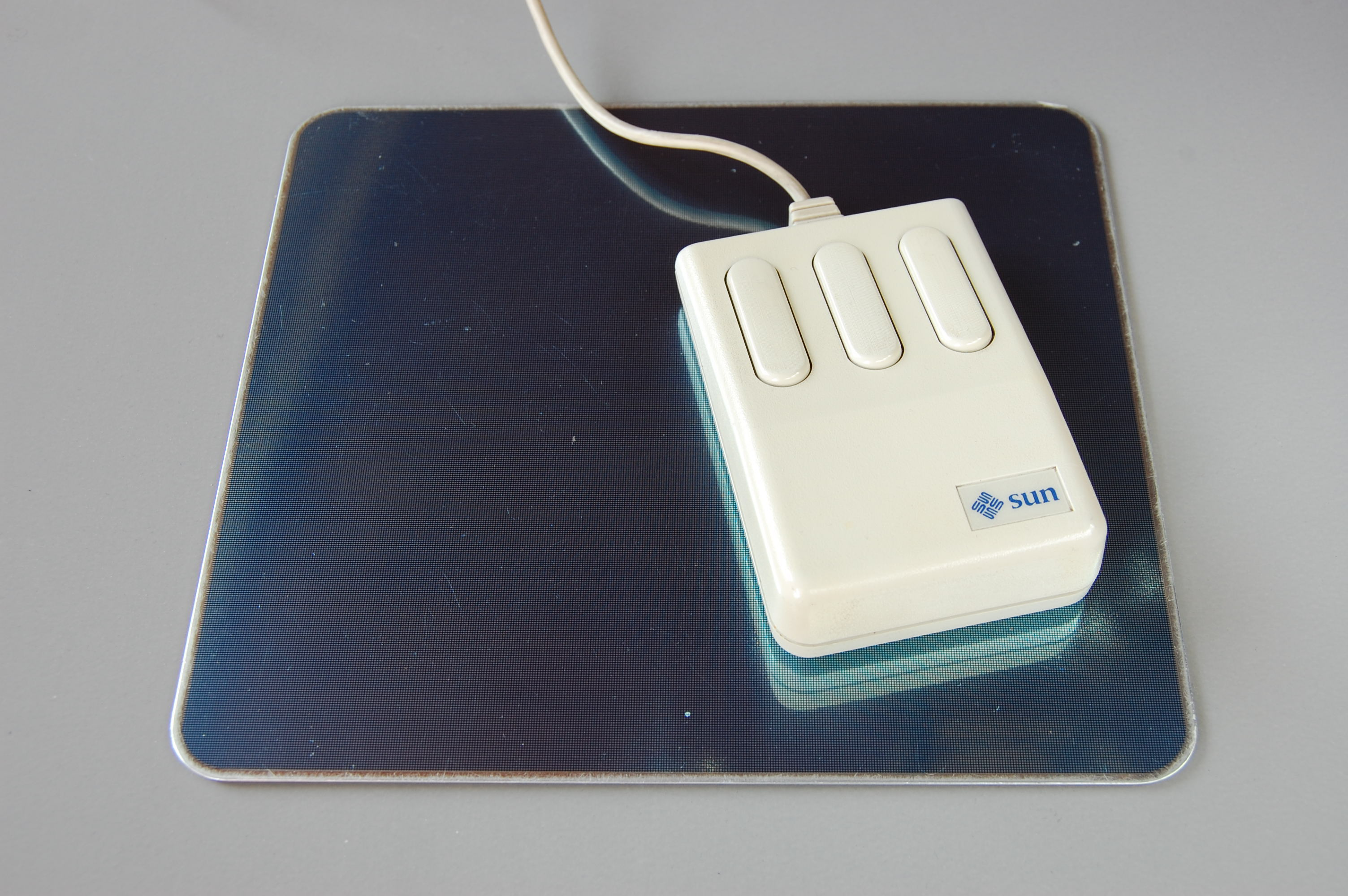 A Sun branded Mouse Systems optical mouse (pointing device) on the original reflective mouse pad. Top view.